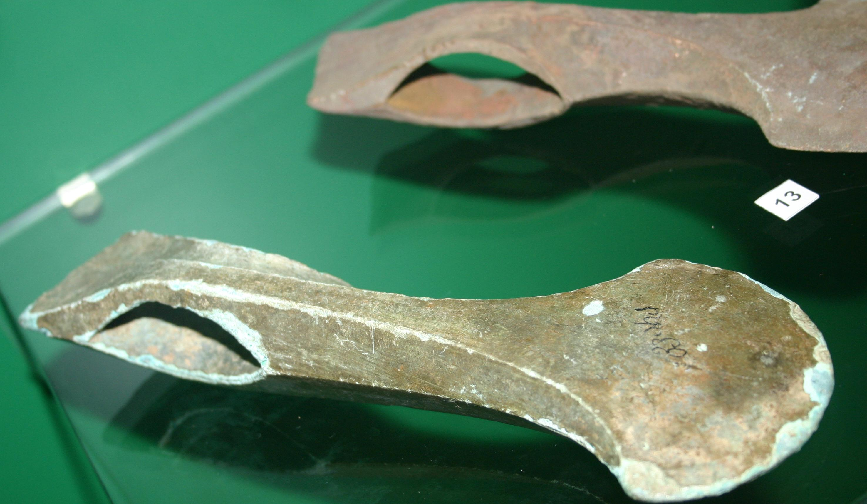 With thanks to the Batumi Archaeological museum for allowing photography